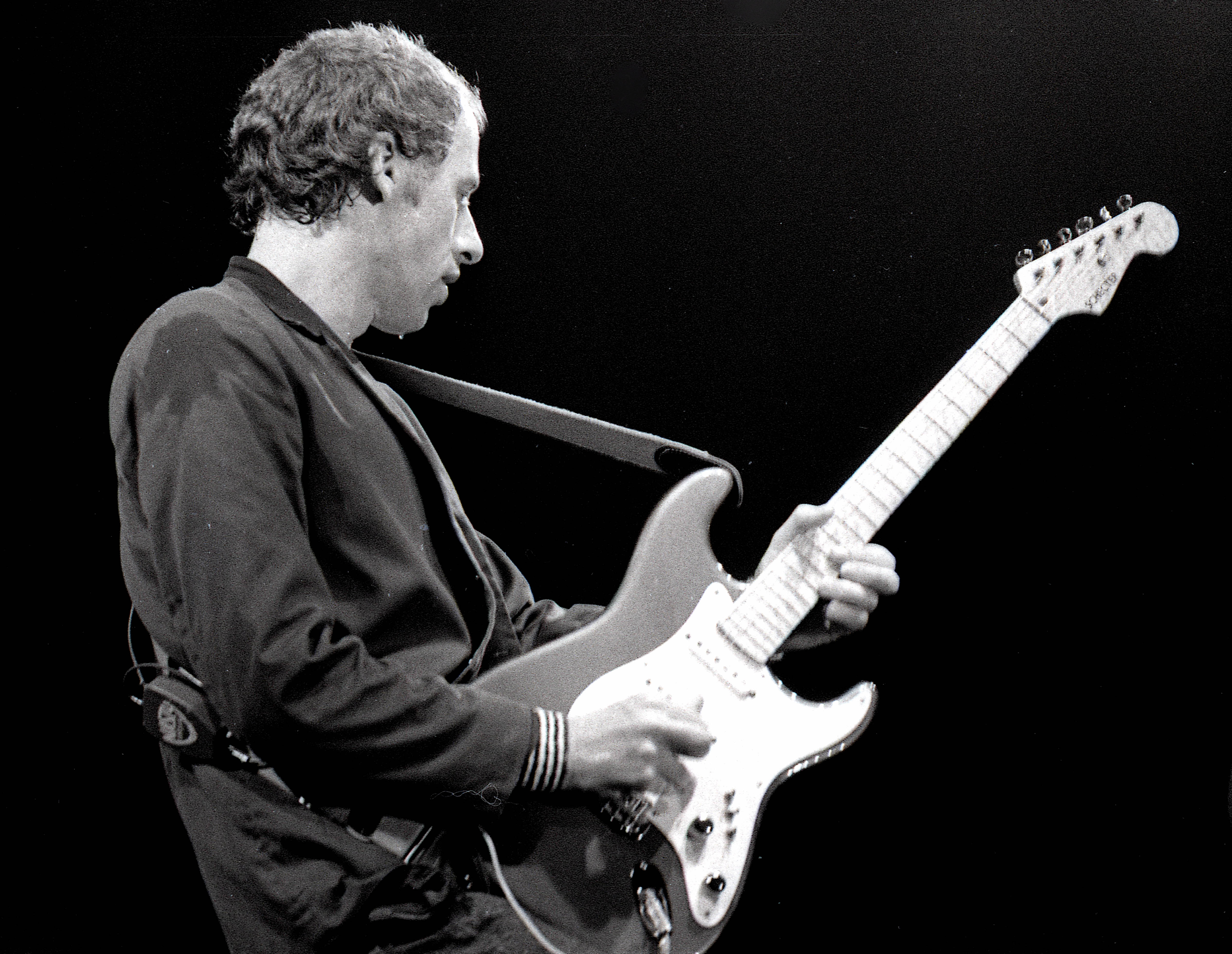 Mark Knopfler of Dire Straits live in Amsterdam 1981, at the Jaap Edenhal. I especially like the drop of sweat hanging from his chin. We stood right in front of the stage and I shot this with my Praktica EE-2 with a 135mm lens. One of my first concerts ever, I was about 13.